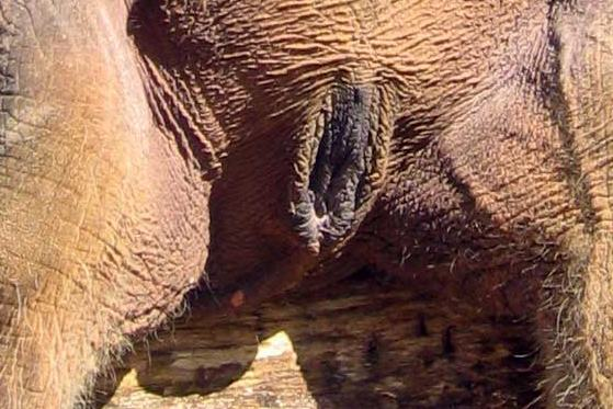 Elephant vulva. According to detail of File:Elefant Sayang.jpg